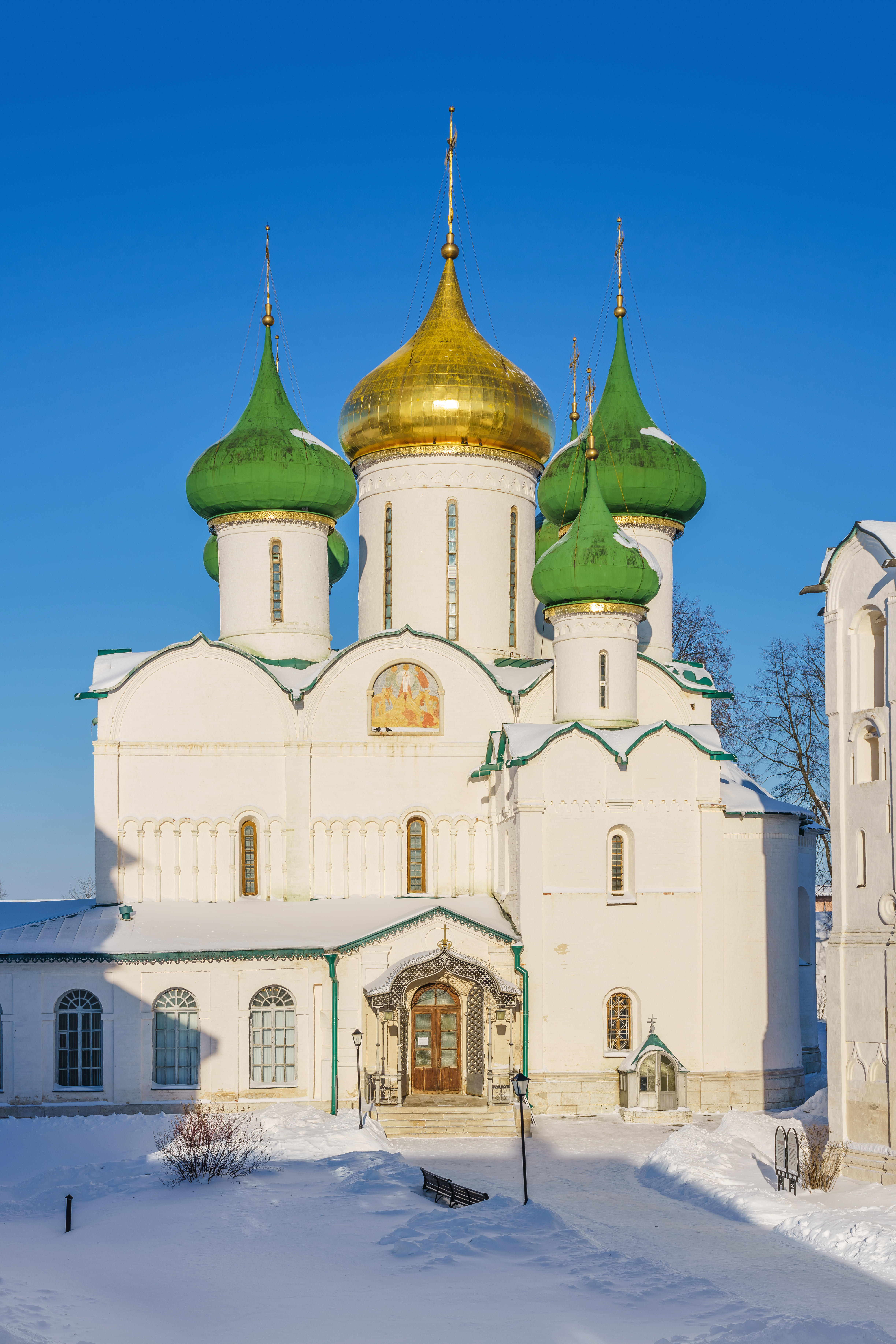 Transfiguration Cathedral in Spaso-Evfimiev Monastery in Suzdal, Russia